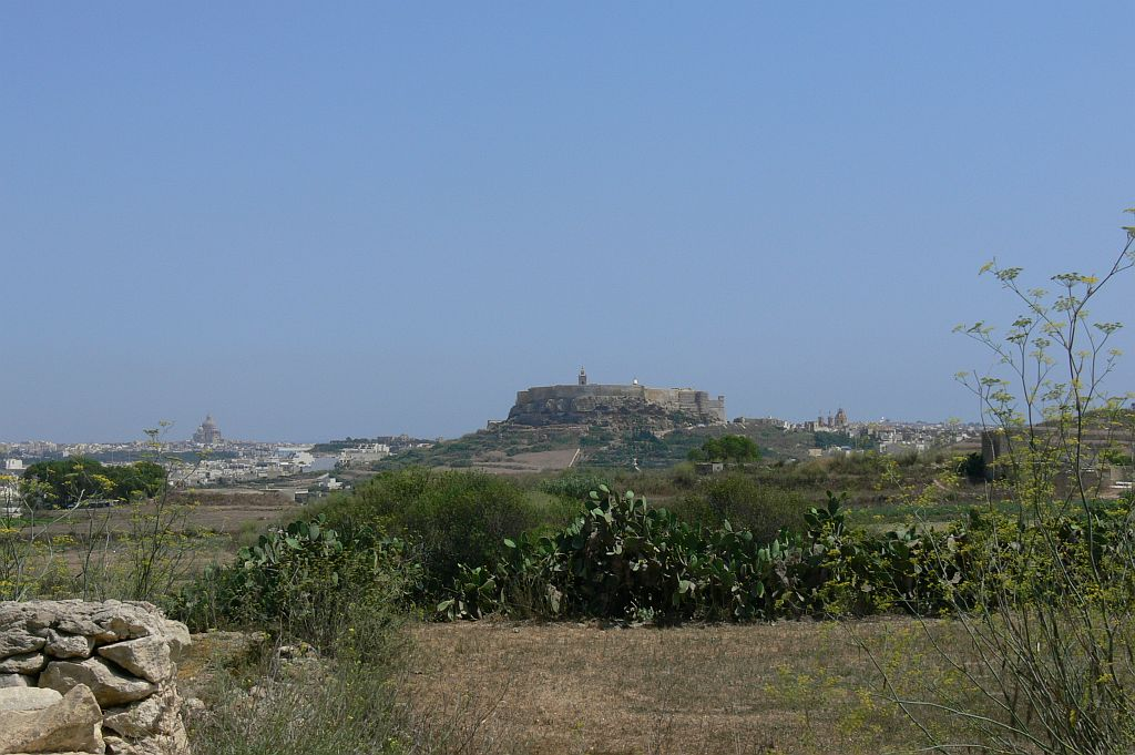 The Gozo Citadel seen fom Għasri